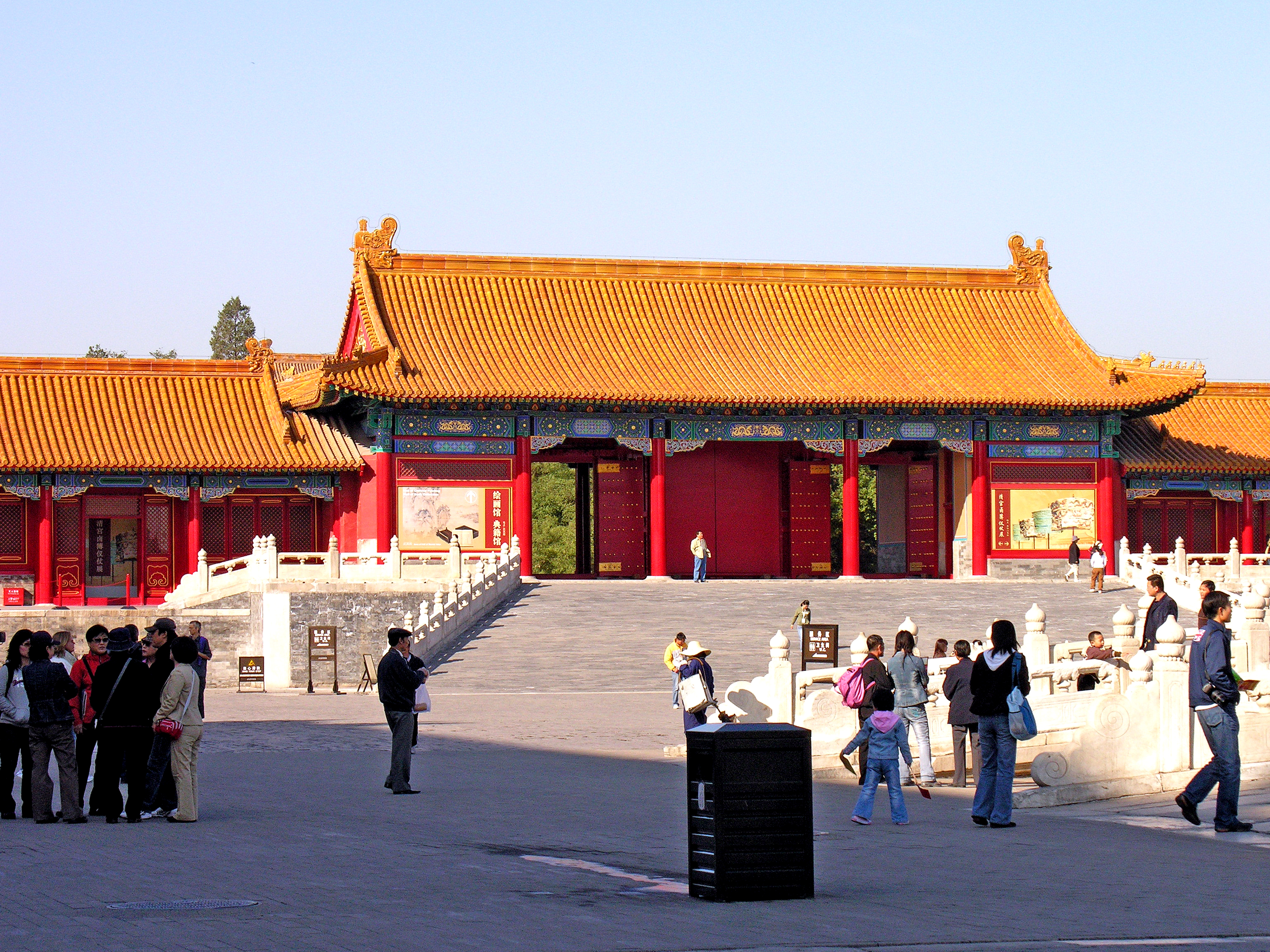 Gate of Glorious Harmony (Forbidden City) China-6147